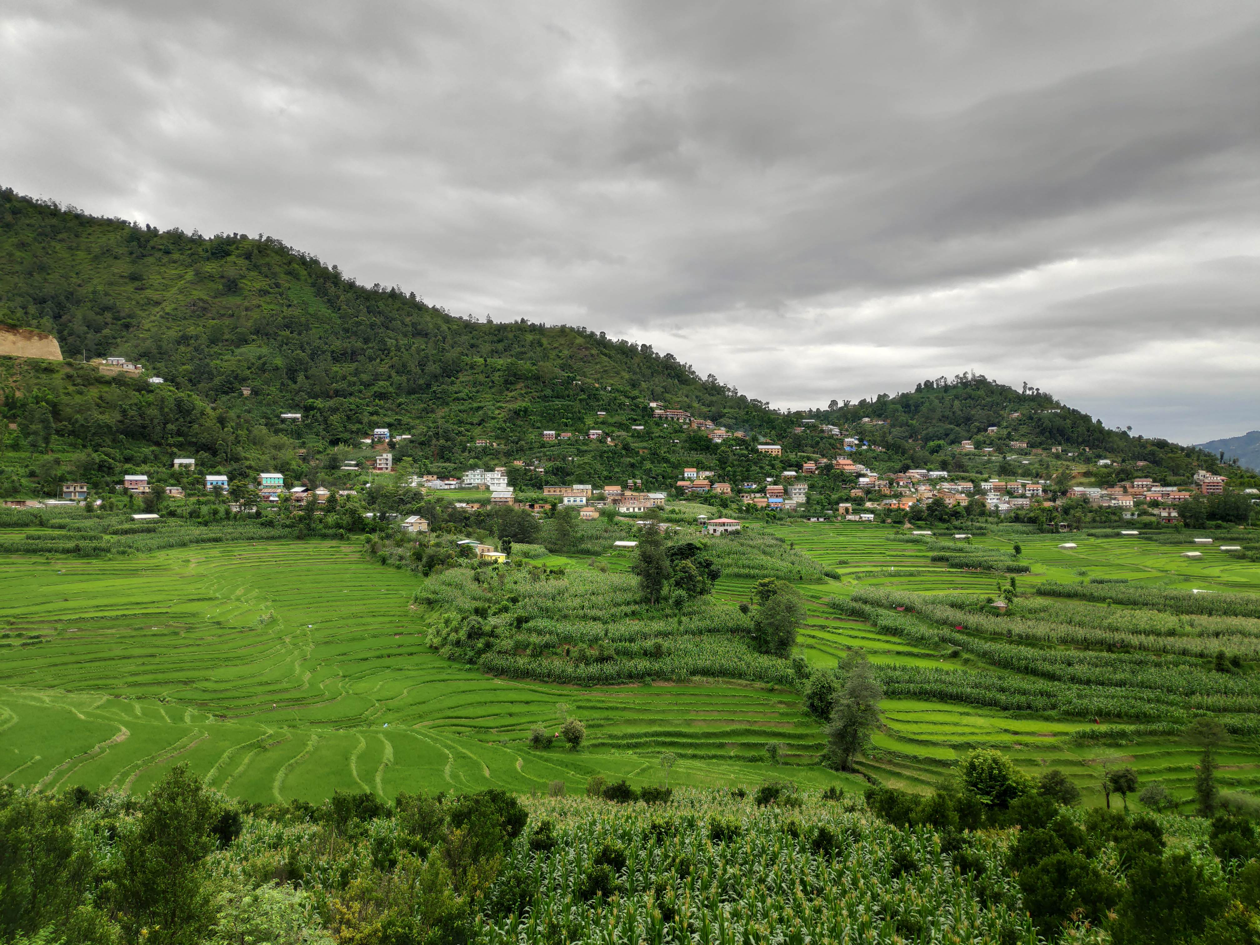 Green lush paddy fields at Balthali, Kavre, Nepal.